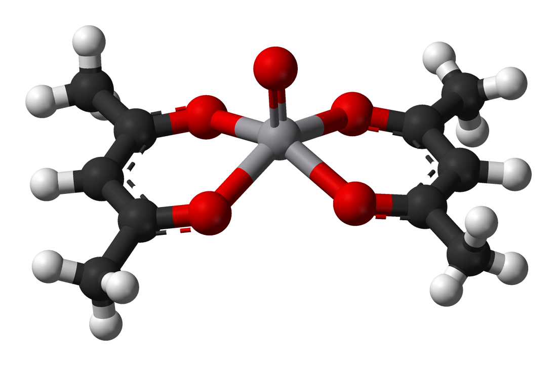 Ball-and-stick model of the vanadyl acetylacetonate molecule, C10H14O5V or VO(acac)2, as found in the solid state. Single-crystal X-ray diffraction data from E. Shuter, S. J. Rettig and C. Orvig (1995). "Oxobis(2,4-pentanedionato)vanadium(IV), a Redetermination". Acta. Cryst. C51 (1): 12-14.